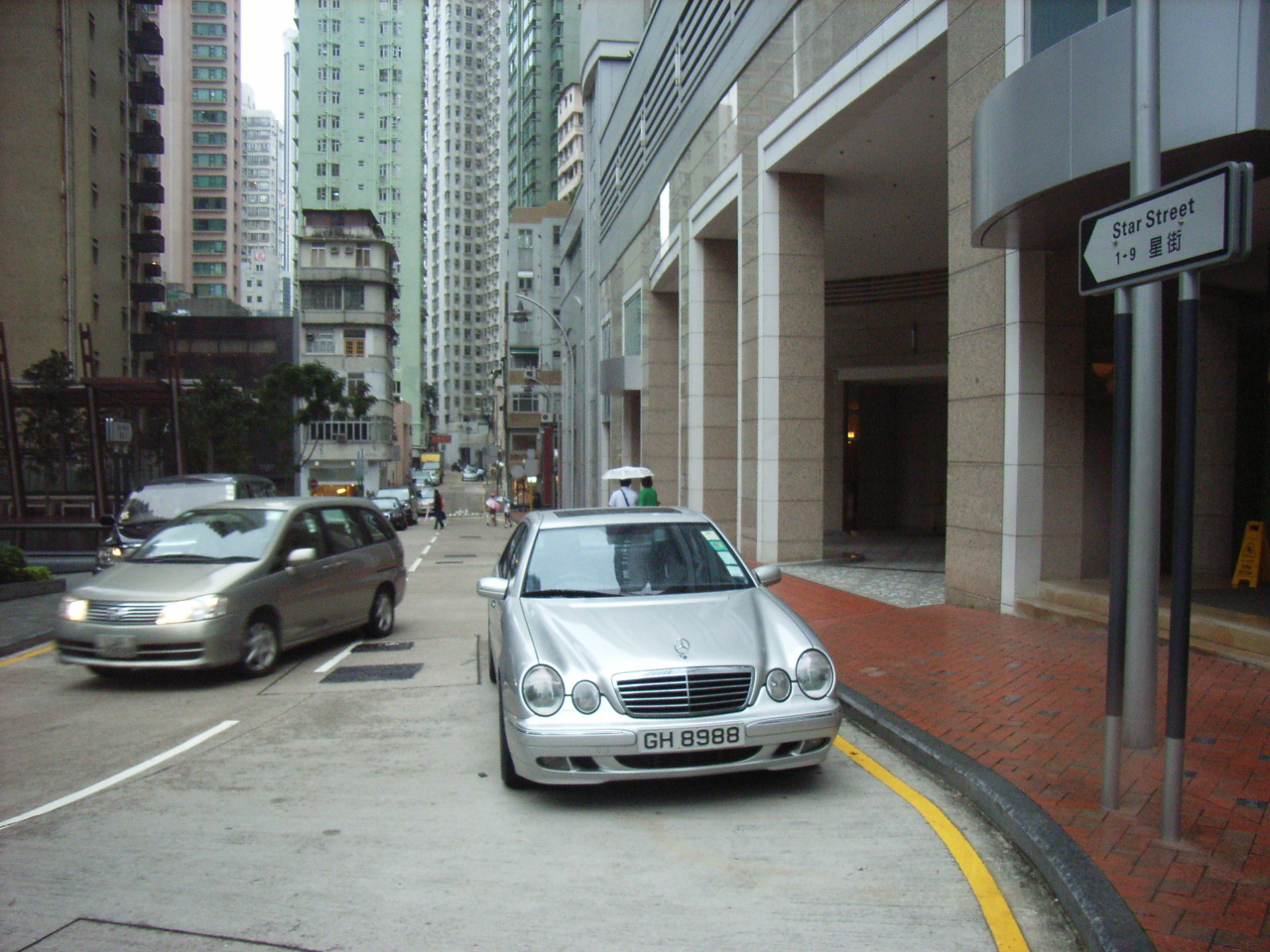 灣仔舊區街道 Wanchai old streets, Hong Kong. (A1 Wong East). The "Art Deco" building of the left in the distance is No. 31 Wing Fung Street, part of the Wan Chai Heritage Trail.